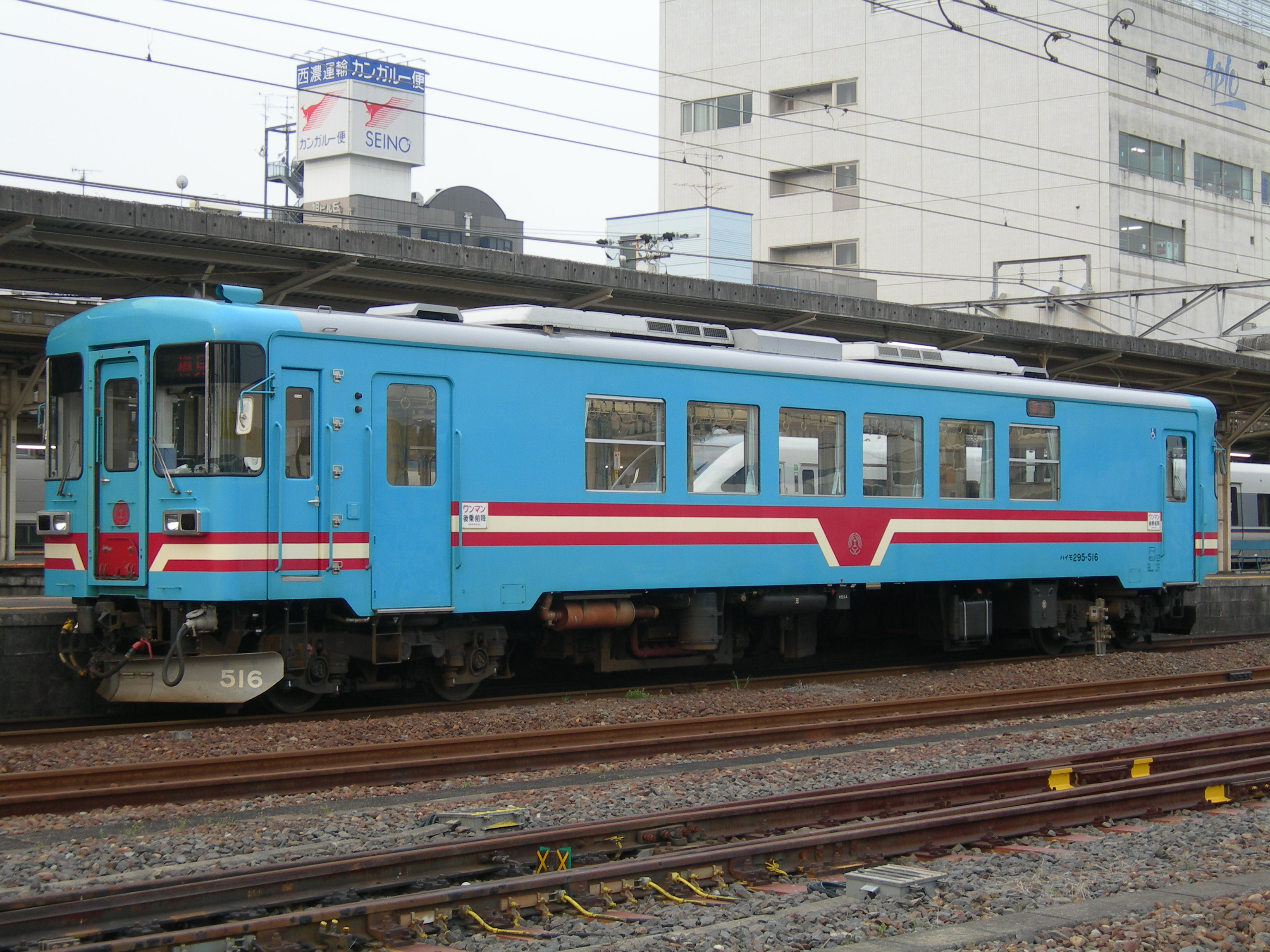 This is the picture of Himo295-516 (Tarumi Railway (Gifu Pref. JAPAN) ).